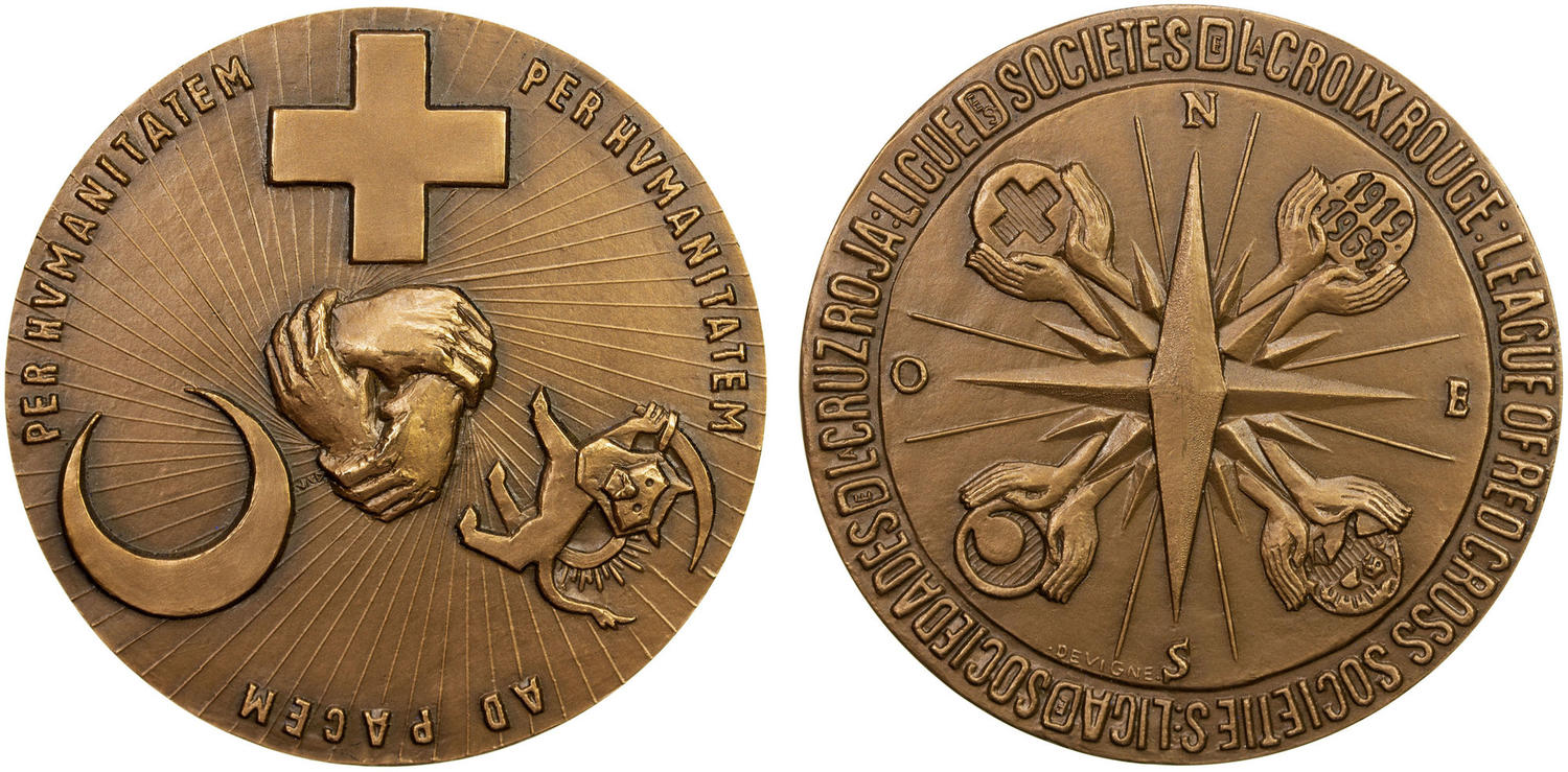 International Red Cross and Red Crescent medal by Jacques ,Devigne, struck at the Paris mint. PER HUMANITATEM AD PACEM "with humanity, towards peace " / PER HUMANITATEM "with humanity " around joined clasped hands, Red Cross and Red Crescent, and Iranian Red Lion and Sun motif // LEAGUE OF RED CROSS SOCIETIES / LIGA DE SOCIEDADES DE LA CRUZ ROJA / LIGUE DES SOCIETES DE LA CROIX-ROUGE around compass and similar obverse emblems with date 1919-1969